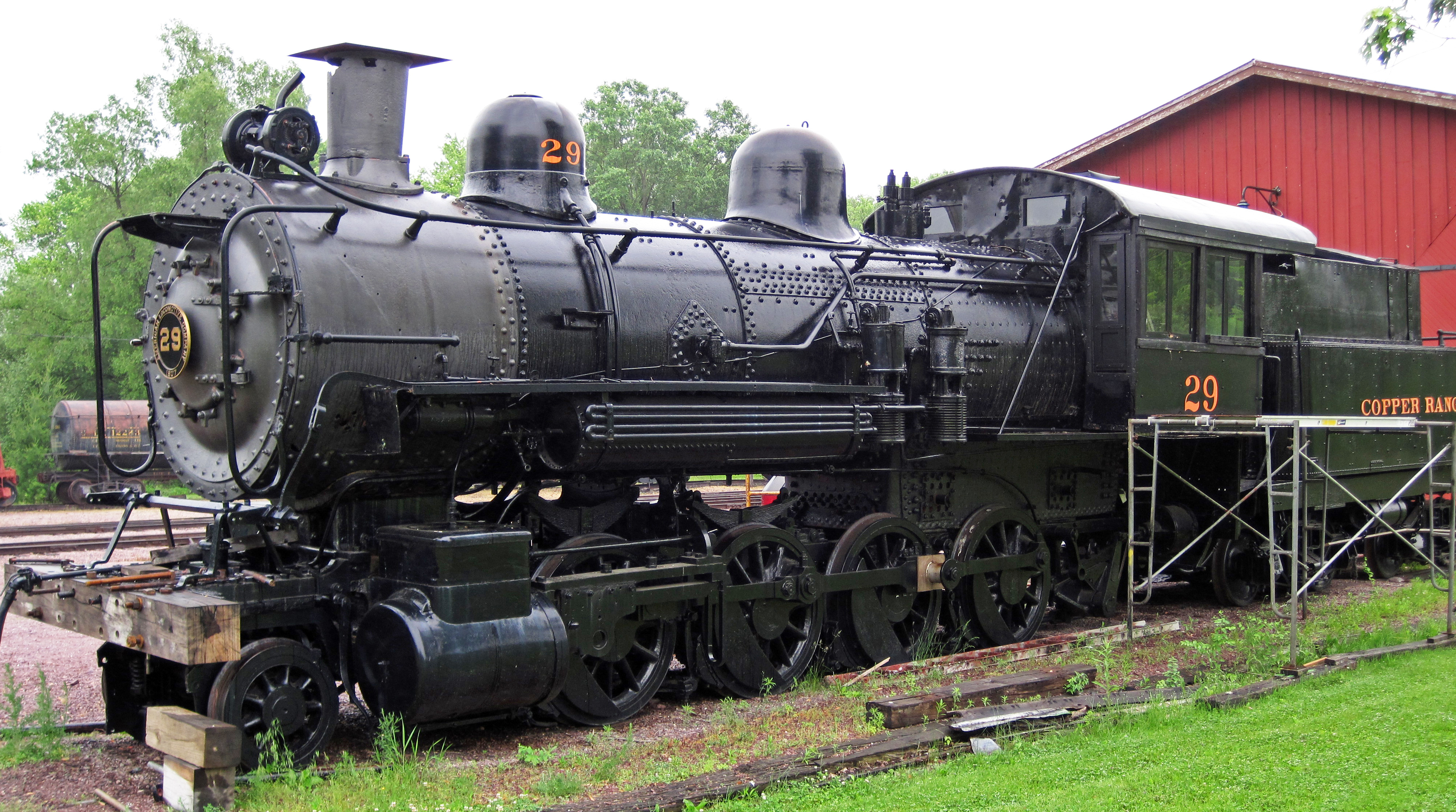 This 2-8-0 steam locomotive was built in 1907 by the American Locomotive Company for use by the Copper Range Railroad in Michigan's Upper Peninsula (UP). The engine hauled freight for the UP's copper mining industry and was also used in passenger trains. It was retired from service in the early 1950s, but it did head tourist trains in the UP's Keweenaw Peninsula during the late 1960s. The locomotive is now part of the Mid-Continent Railway Museum collection in the town of North Freedom, Wisconsin. The copper mines of Michigan's Upper Peninsula targeted native copper (Cu) that occurred in 1.1 billion year old basalt lava flows and interflow conglomerates. More info.